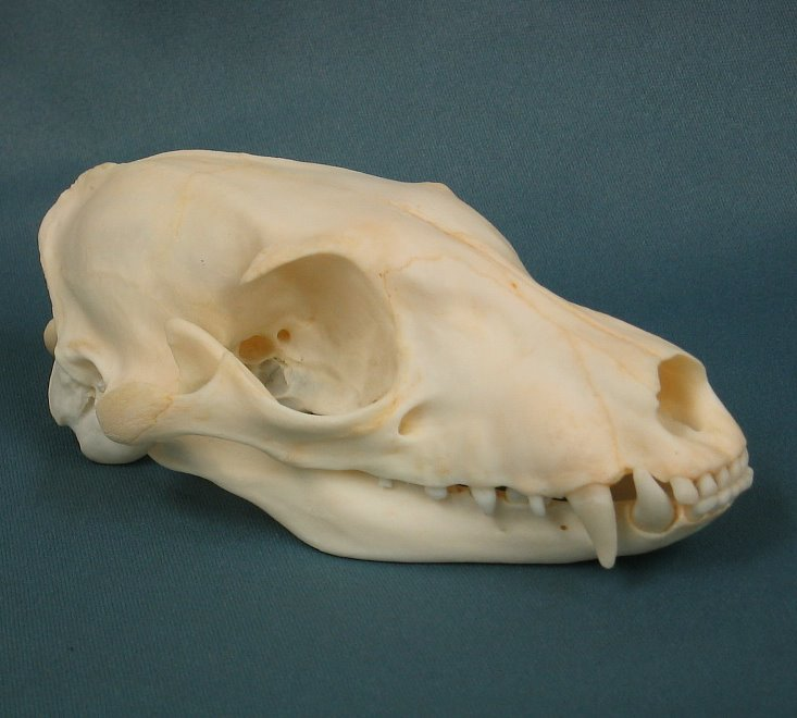 Aardwolf Skull From the Collections of Skulls Unlimited International.